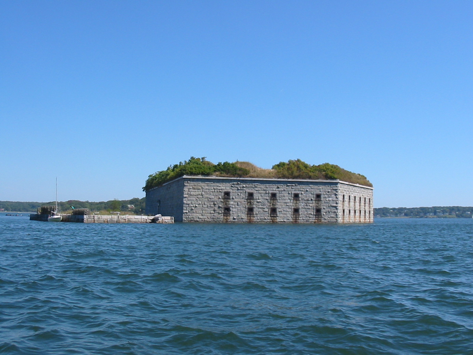 Fort Gorges, Portland Maine. View from shipping channel to south of fort.